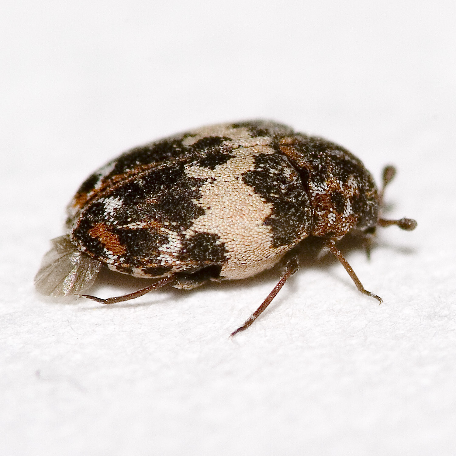 Anthrenus pimpinellae in Dresden (Saxony, Germany)